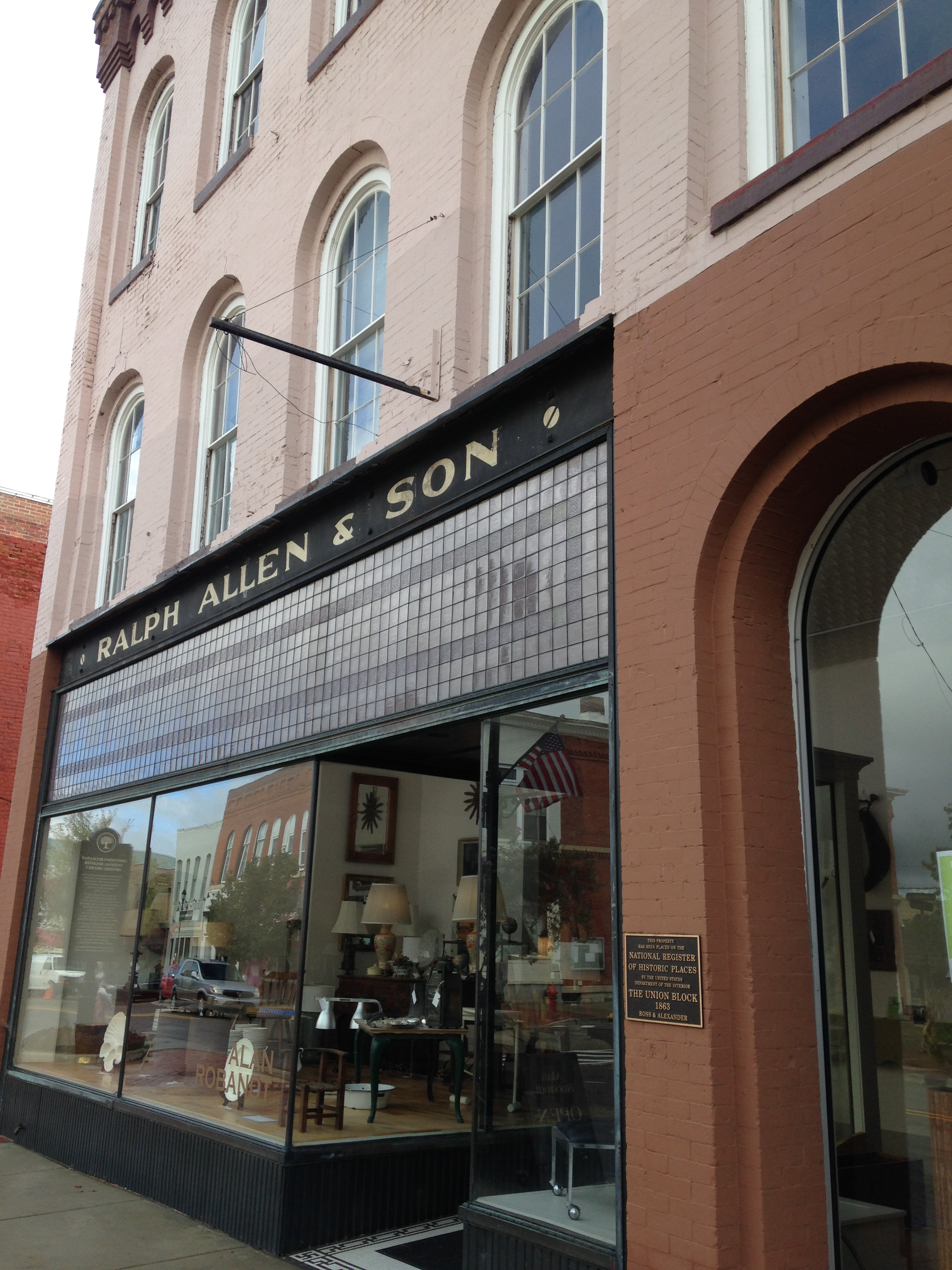 Union Block, 114 E. Front St. Buchanan